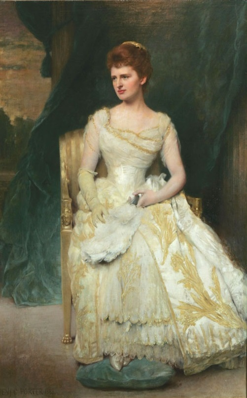 Emily Thorn Vanderbilt Sloane White (1852–1946) was an American socialite and wife of first William Douglas Sloane and then of Henry White